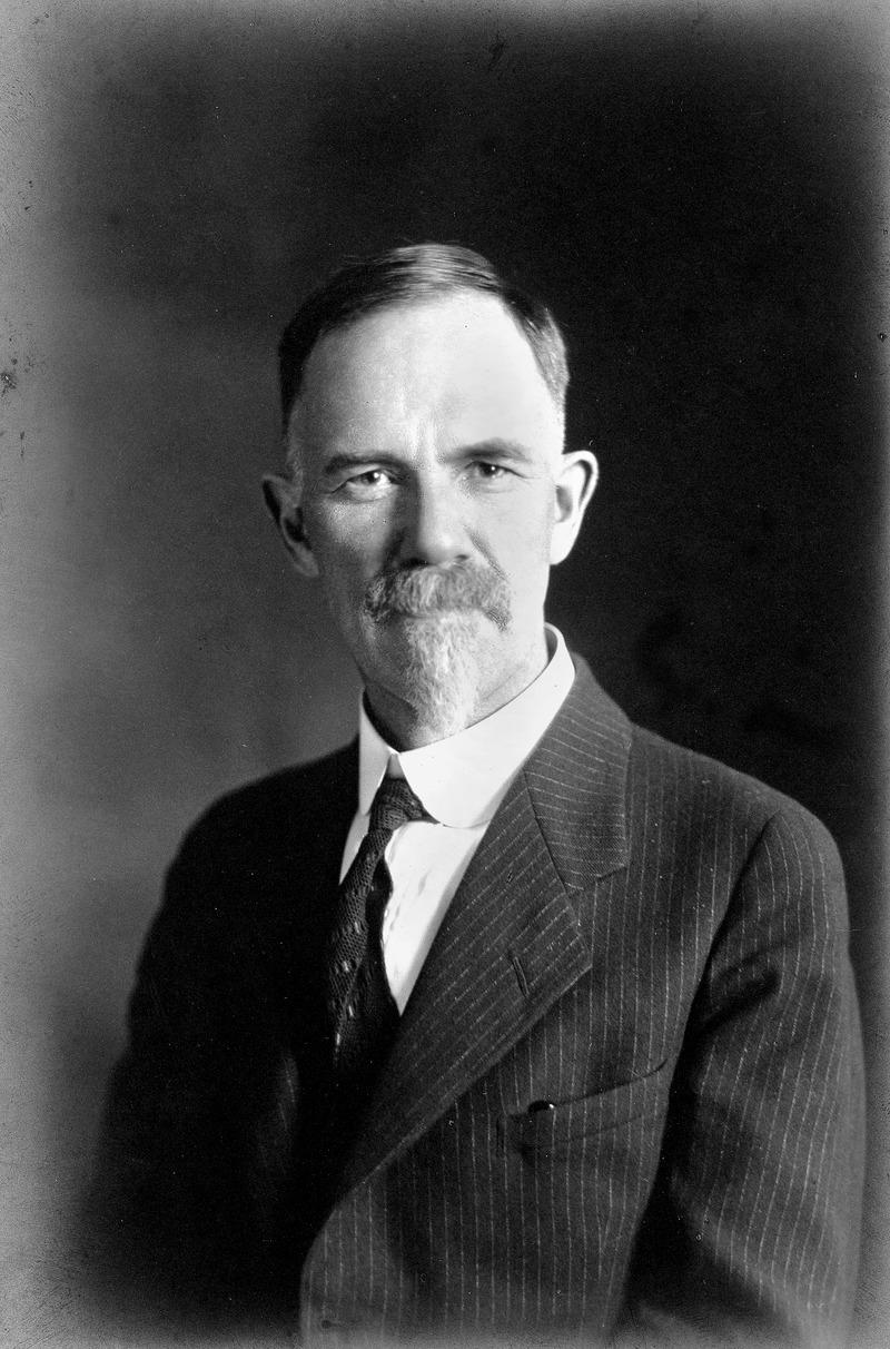 Charles Benedict Davenport, ca. 1929.